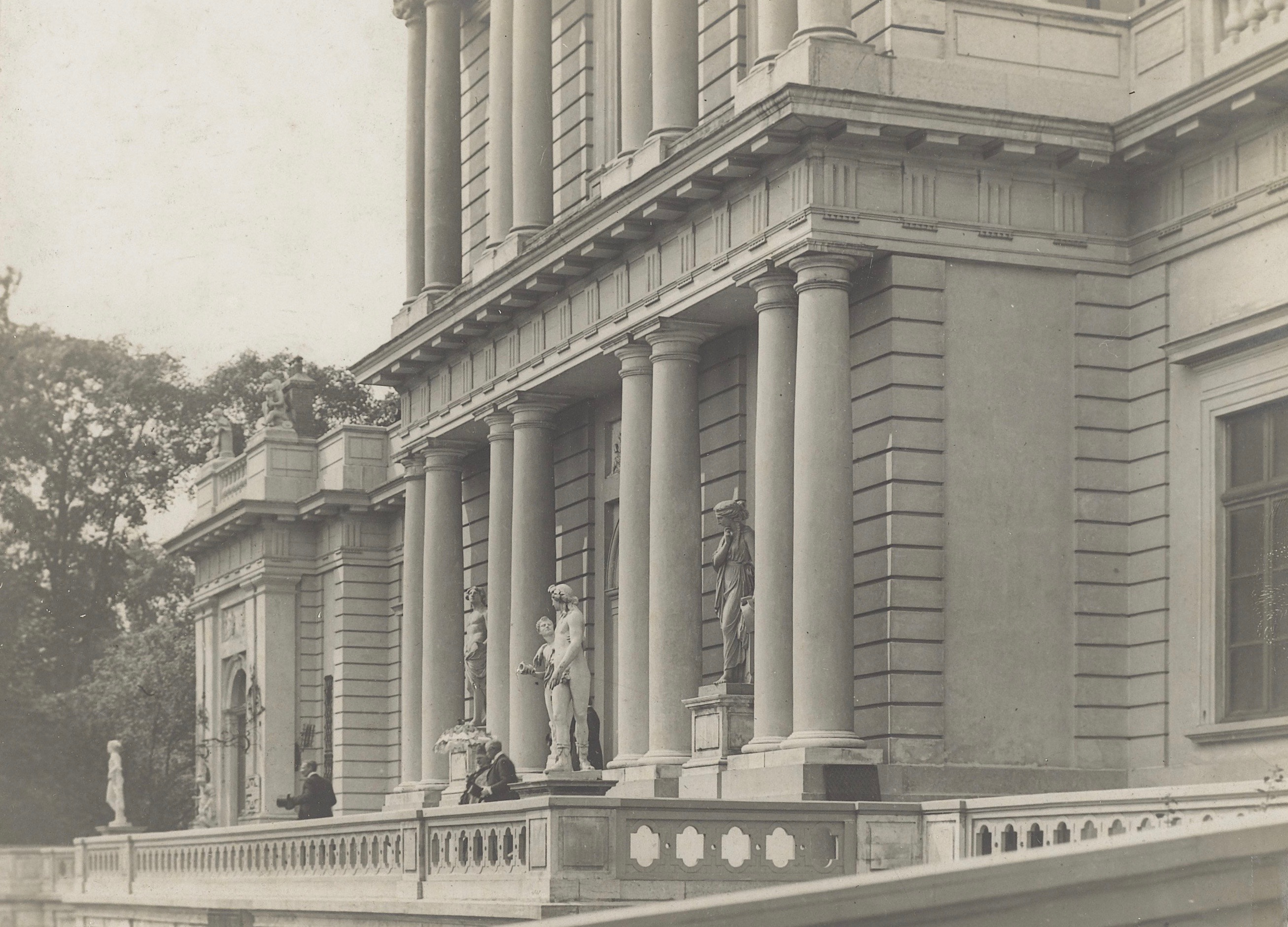 Gedeelte van de voorgevel van het Paviljoen Welgelegen aan de Paviljoenslaan vanaf de oostelijke oprit terwijl de Koningin-Moeder Emma het gebouw verlaat na een bezoek aan een kanttentoonstelling in het Museum van Kunstnijverheid. Ziende naar het noordwesten.